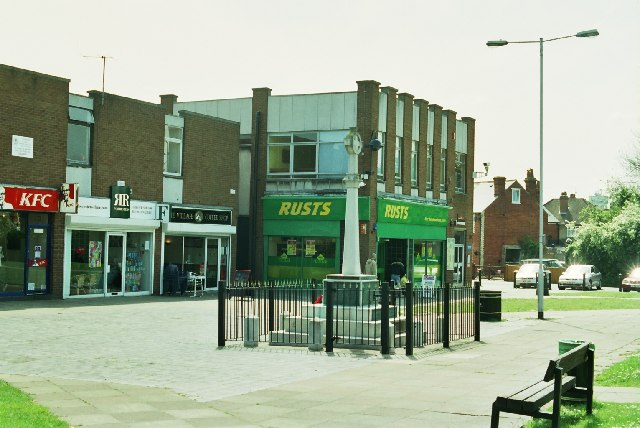 Tilehurst "Village" Though it was a small town, and is now quite a significant commercial centre, Tilehurst likes to stress its 'villageness' - hence the Village Coffee Bar.